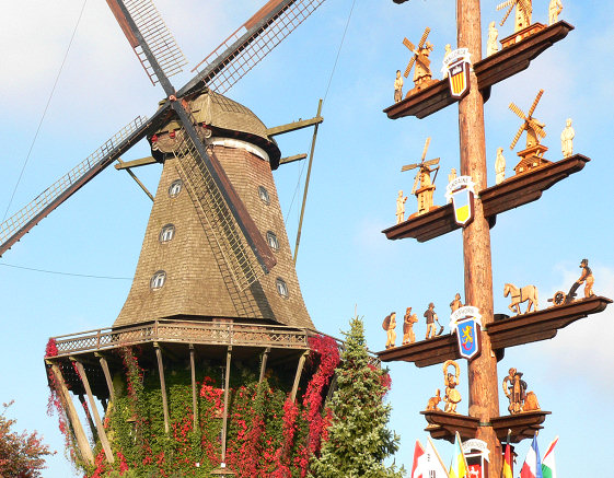 The Sansoucci mill and the 'mill pole' at the International Wind- and Watermill Museum in Gifhorn, Germany